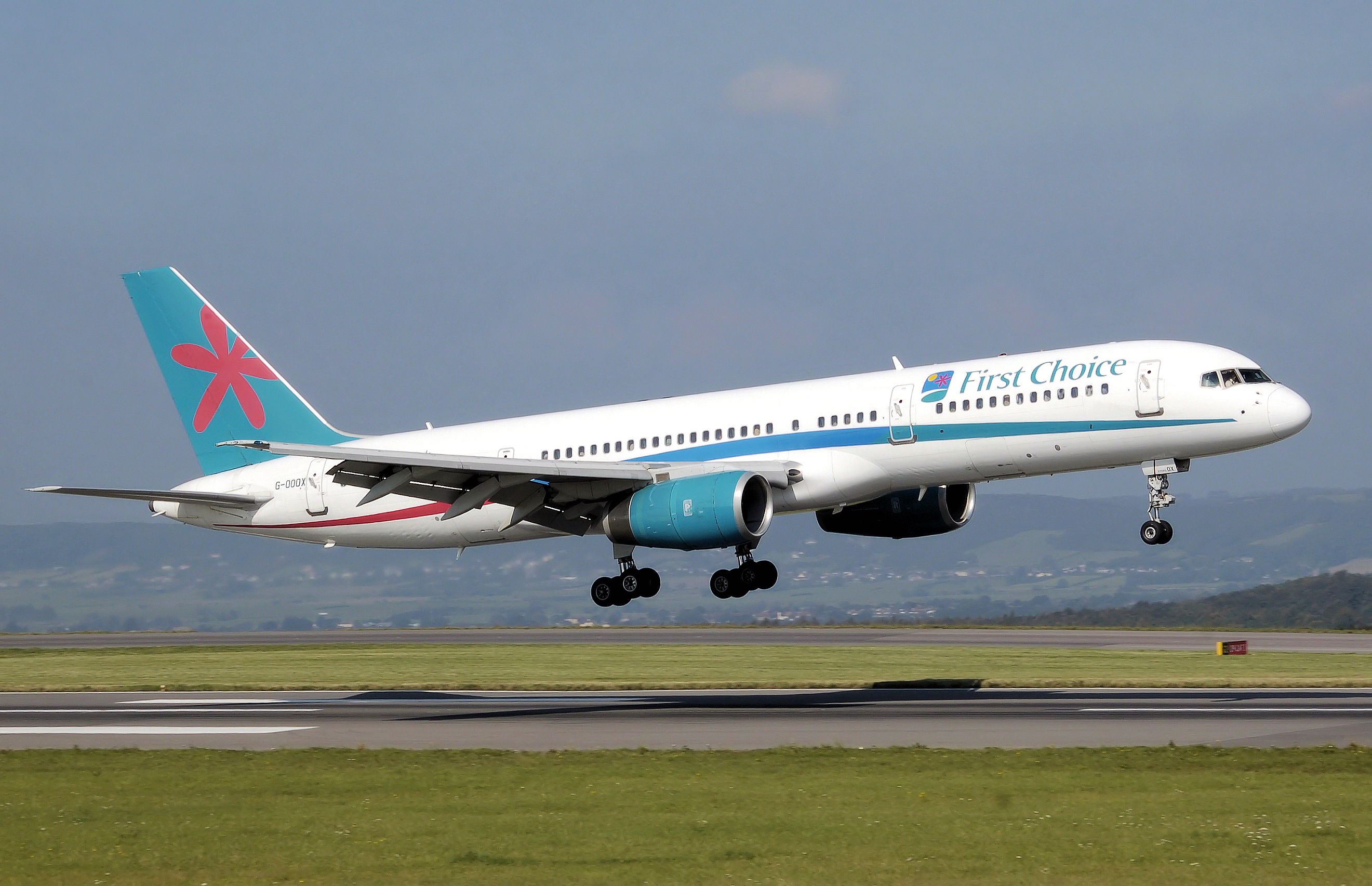 First Choice Airways Boeing 757-200 (G-OOOX) lands at Bristol International Airport, England.